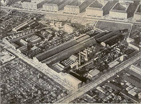 D.L. Smidt's industrial site in Valby with Vigerslev Allé in the top of the picture and Gammel Køge Landevej in the bottom. The area is now known as Valby Maskinfabrik.